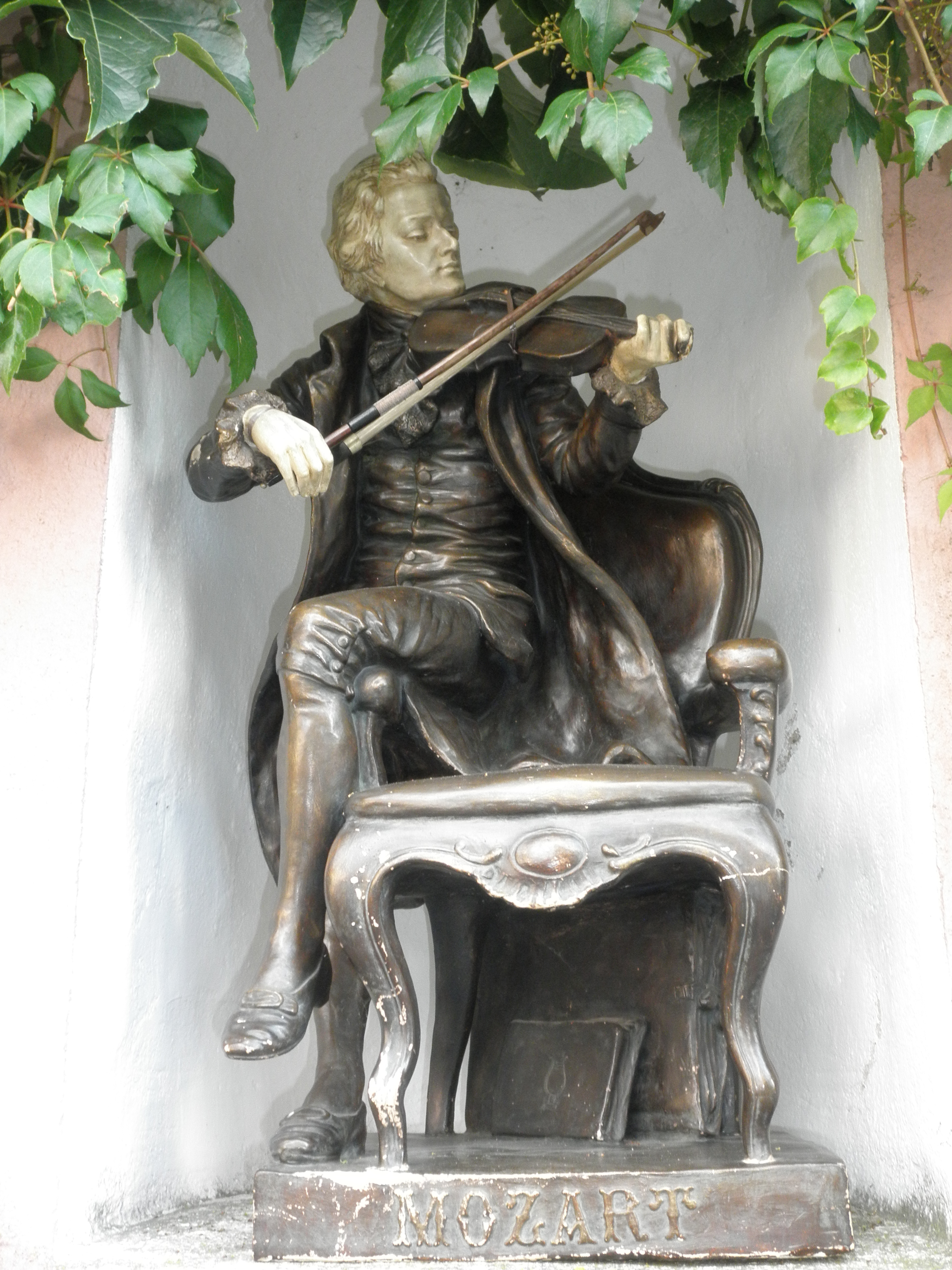 Statue of Mozart in Wurz (Püchersreuth) in Bavaria